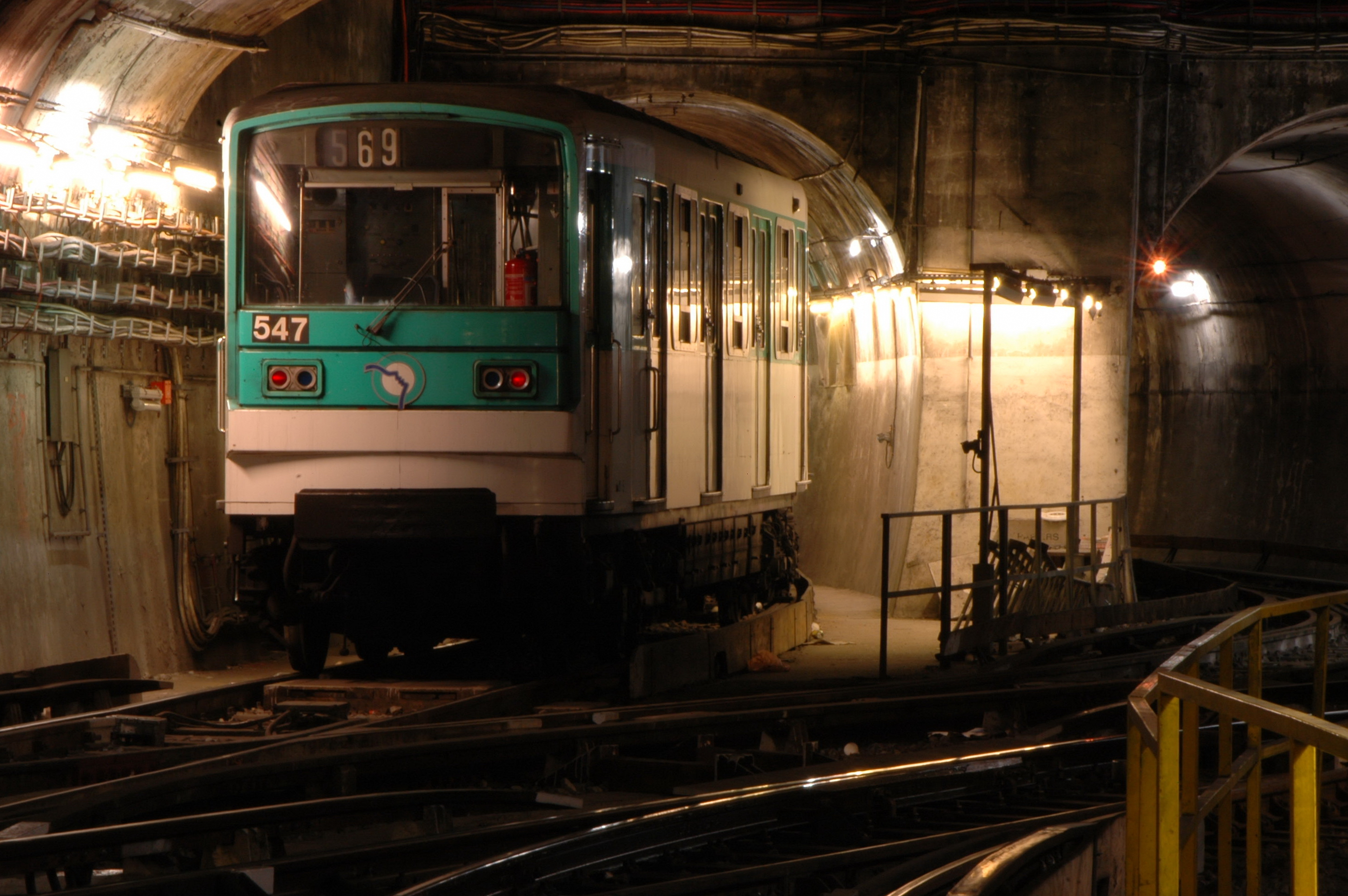 A MF 67 train of the Paris Métro near the Place d'Italie station.